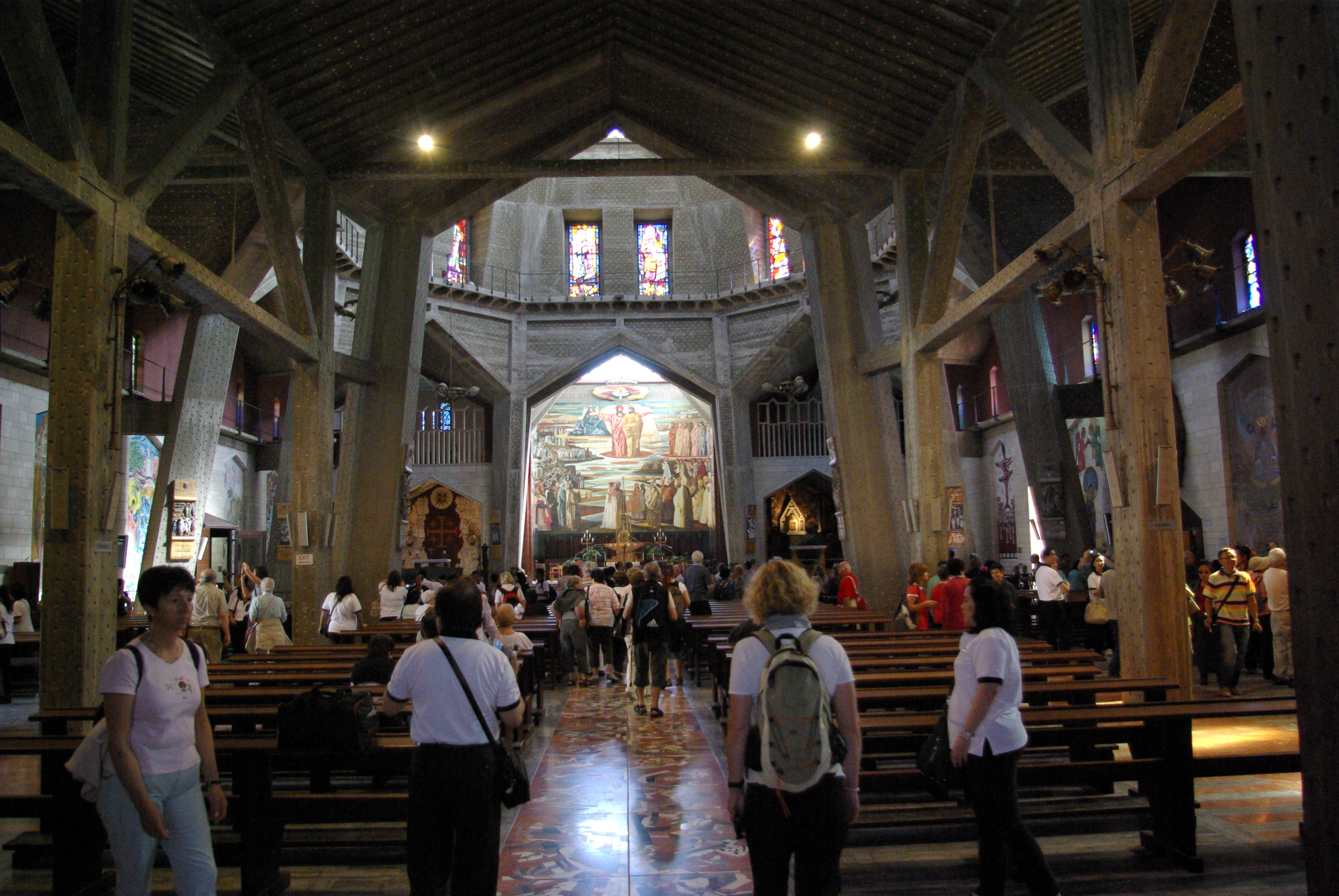 Church of the Annunciation, Nazareth, Israel